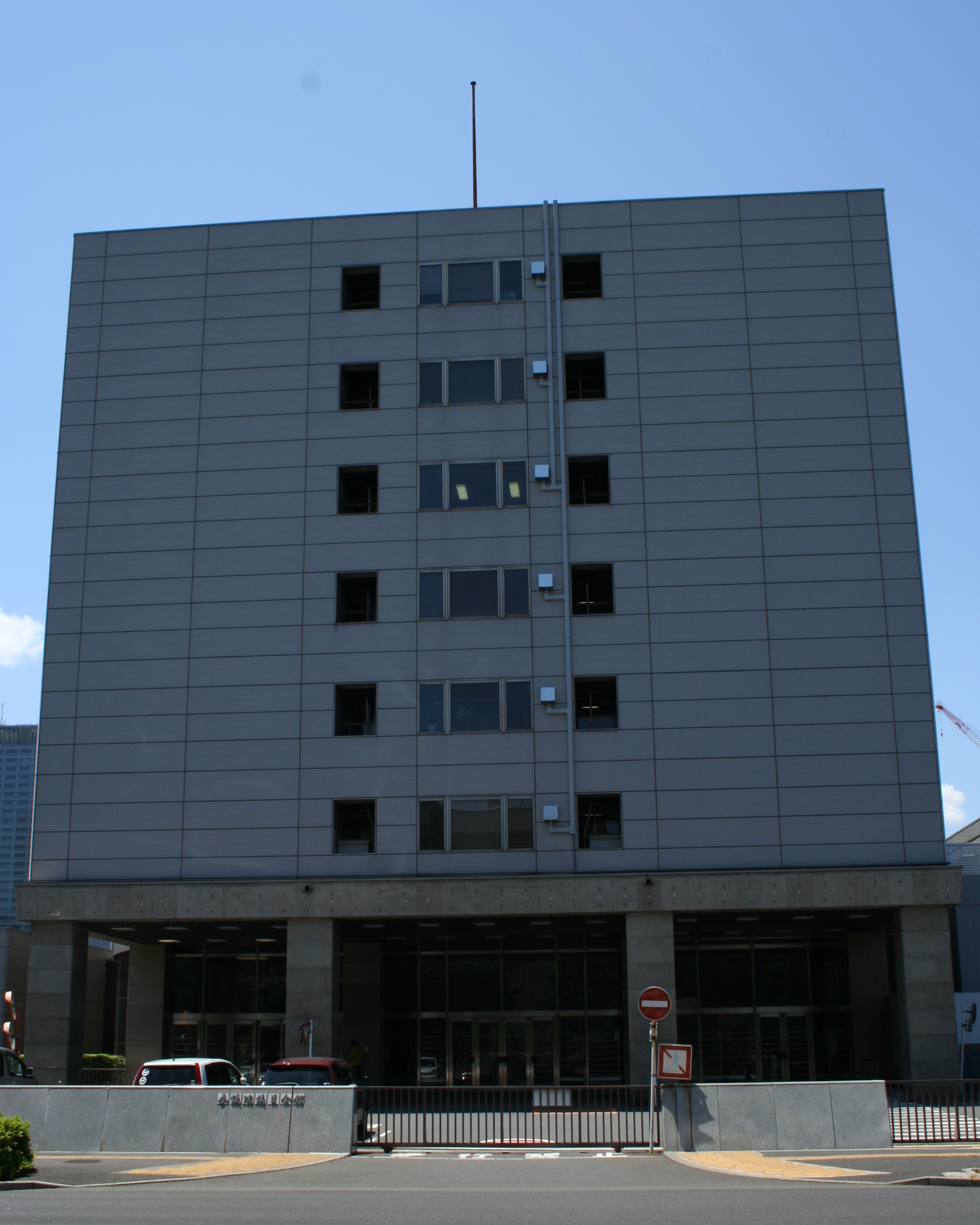 Members' office building of House of Councillors of Japan. (2-1-1 Nagatacho, Chiyoda-ku, Tokyo, Japan)